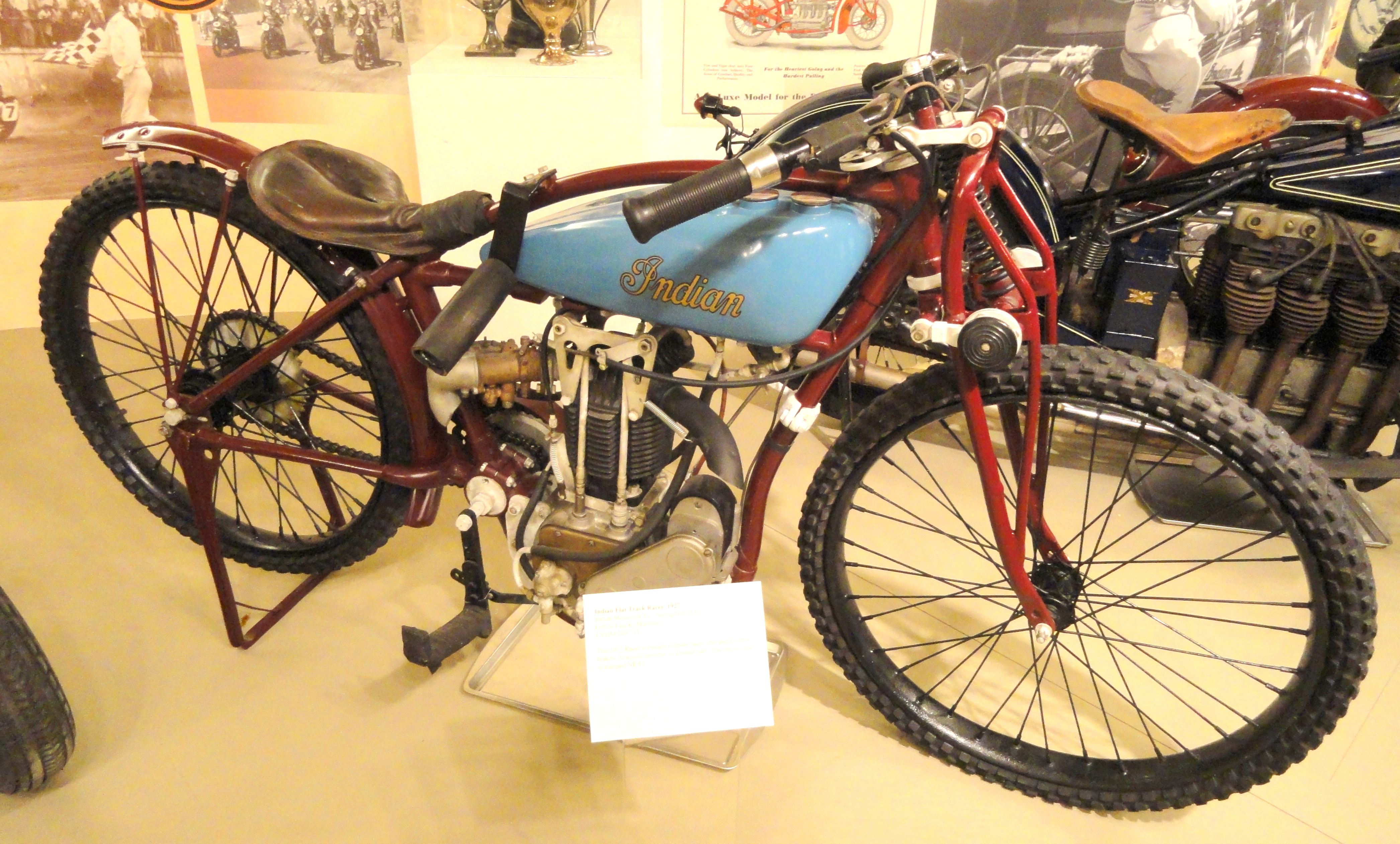 Exhibit in the Lyman & Merrie Wood Museum of Springfield History, Springfield, Massachusetts, USA. This exhibit is old enough so that it is in the public domain.